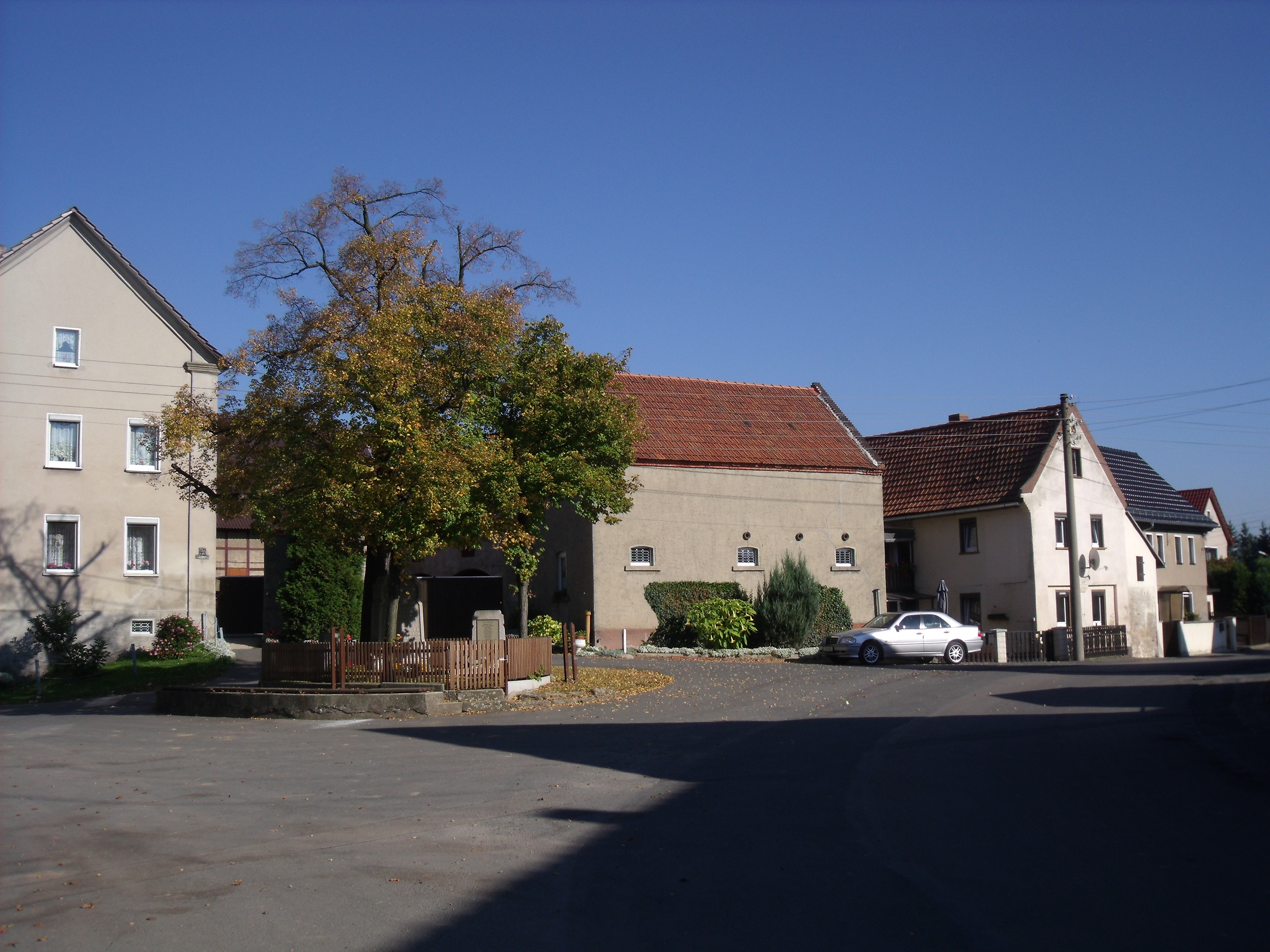 Village square with war memorial in the district of Roben, Gera, Germany